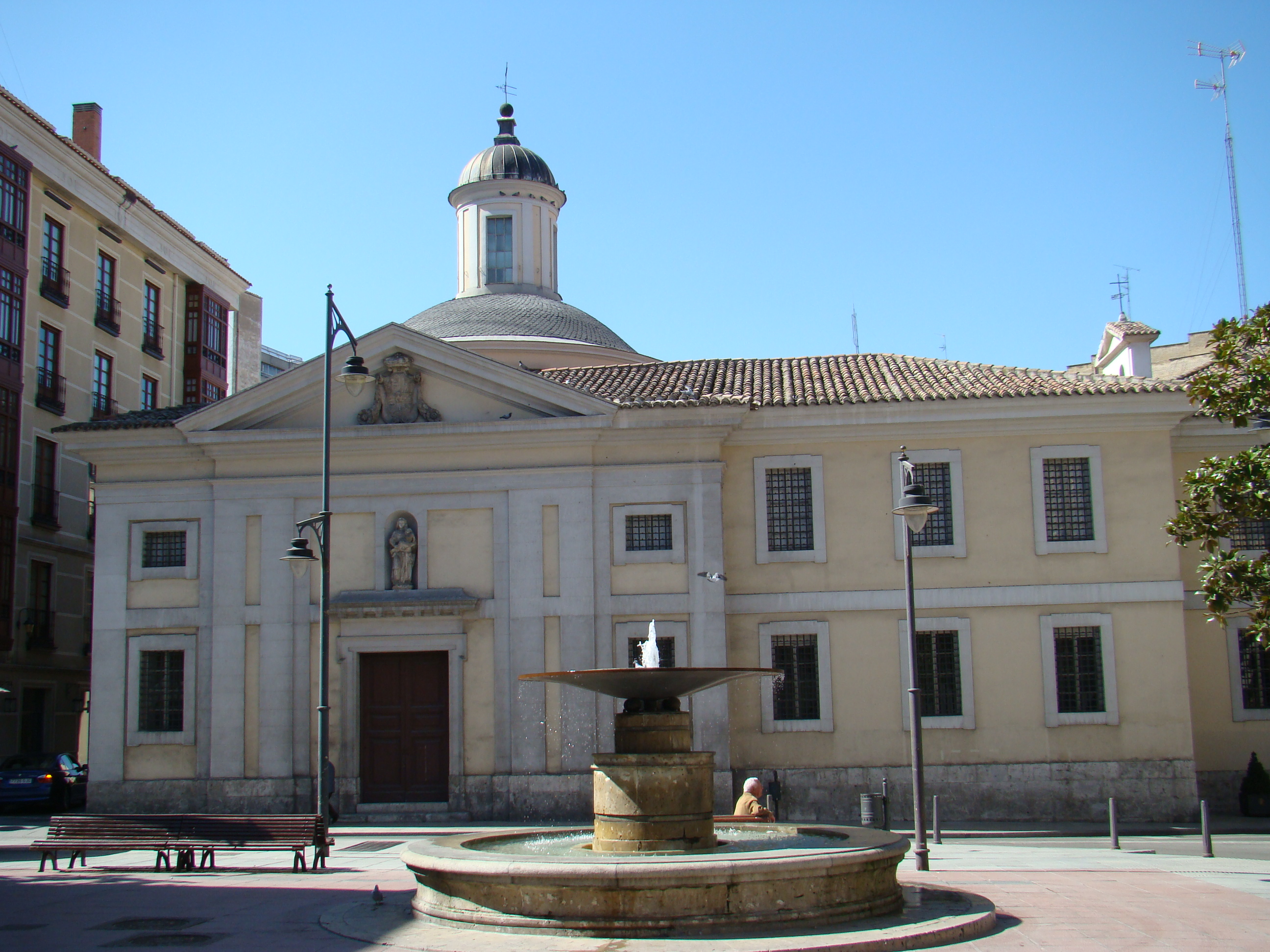 Main façade of the monastery of Santa Ana in the city of Valladolid, Spain.